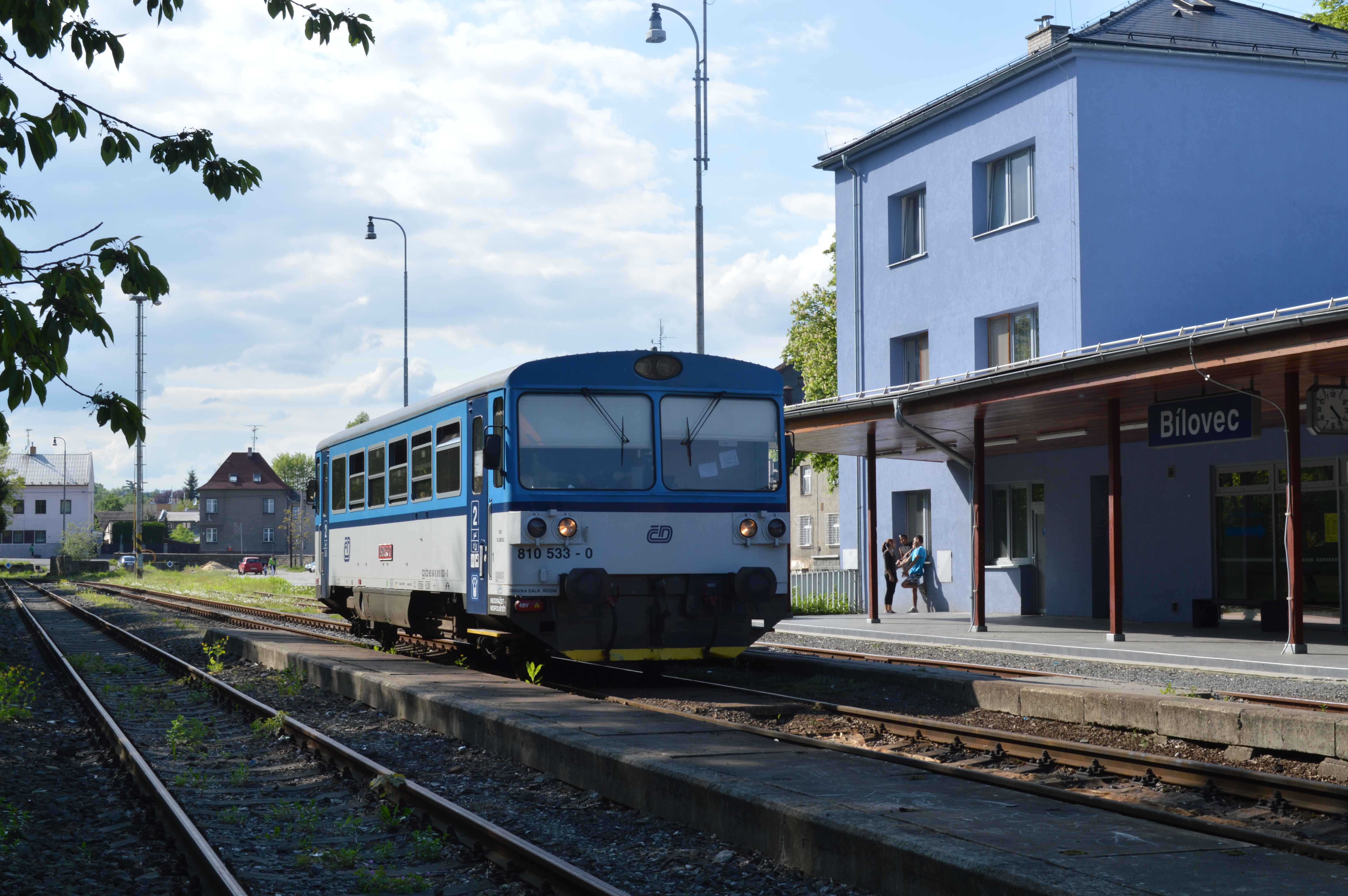 2013 Czech Republic Trip Day Four Solitary single car 810.533 was employed on the short branch from Studénka to Bílovec on 14 May 2013. Seen during the 11 minute layover, next turn of duty is Os23327, 16:34 Bílovec to Studénka.